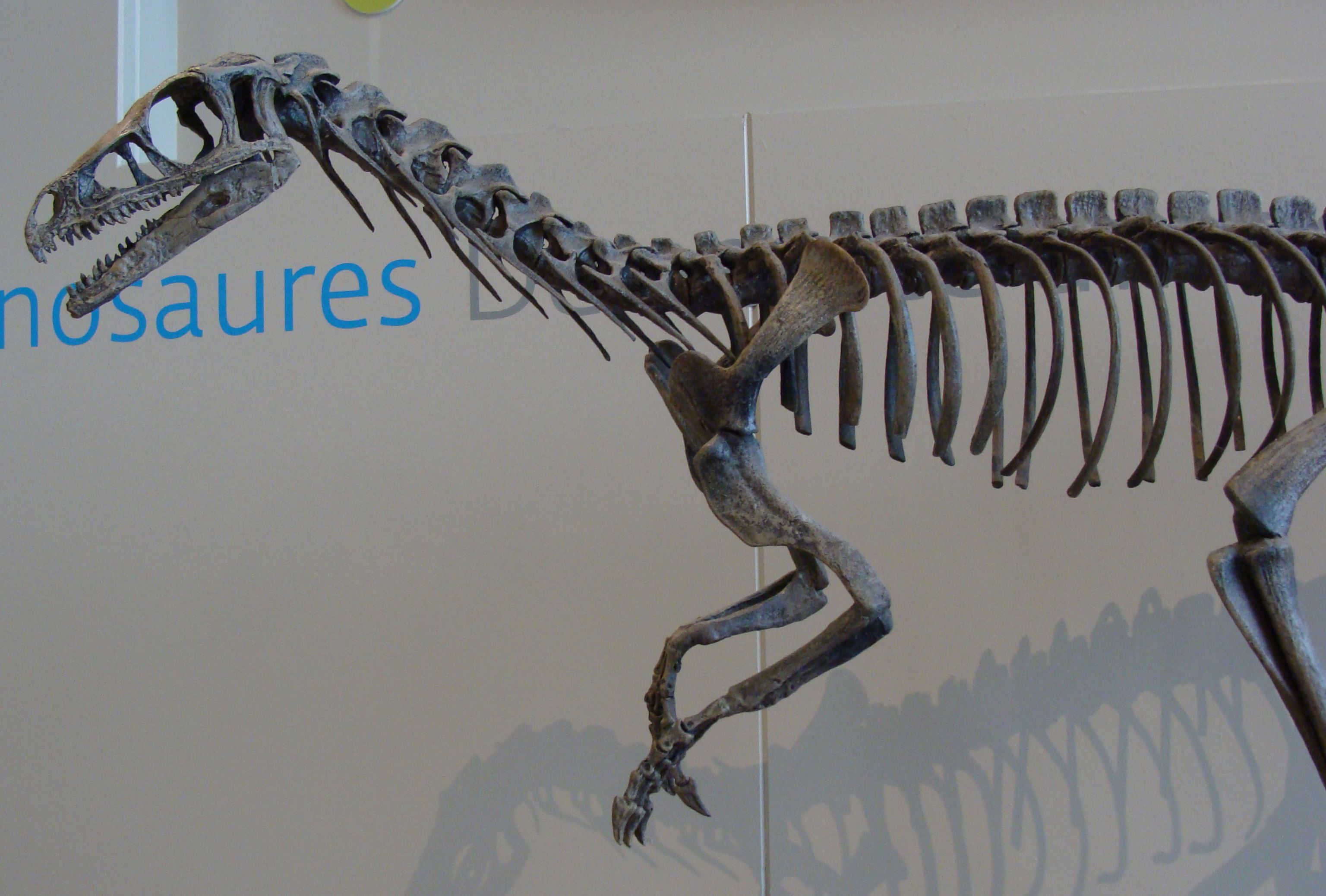 Eoraptor lunensis in the Royal Belgian Institute of Natural Sciences.